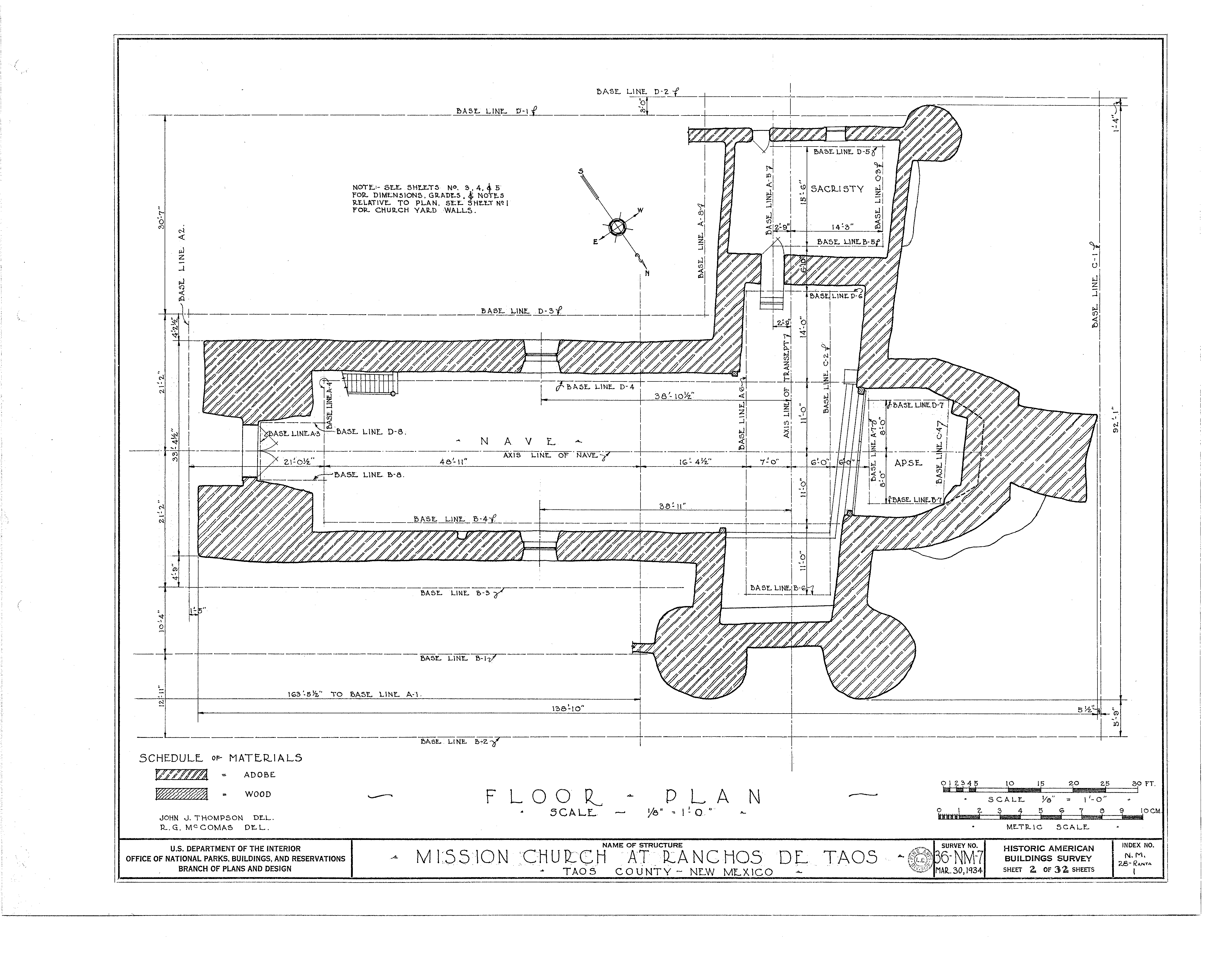 Rancho de Taos church, Rancho de Taos New Mexico.